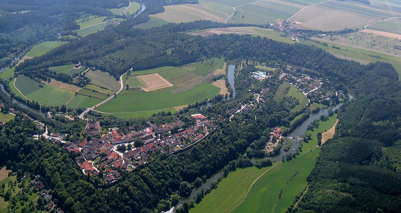 Aerial photographs of Drosendorf-Zissersdorf, city in Lower Austria